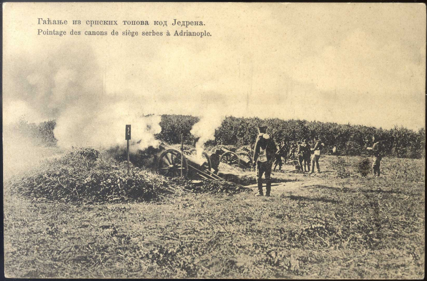 Serbian artilery in siege of Adrianople 1913 (First Balkan war).